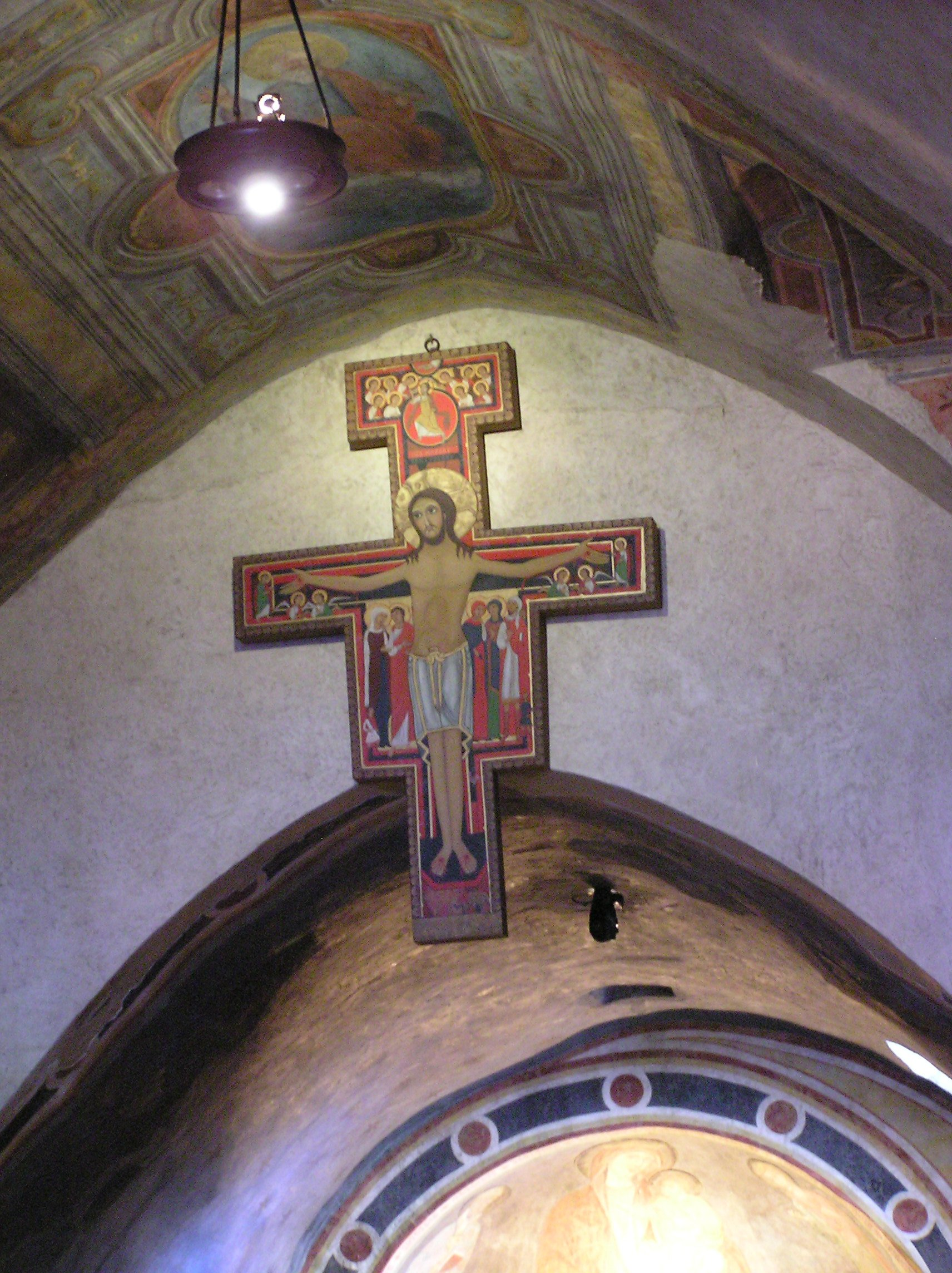 San Damiano, Assisi, Copy of the crucifix who spoke to Saint Francis. The original one is now in the Santa Chiara Basilica.